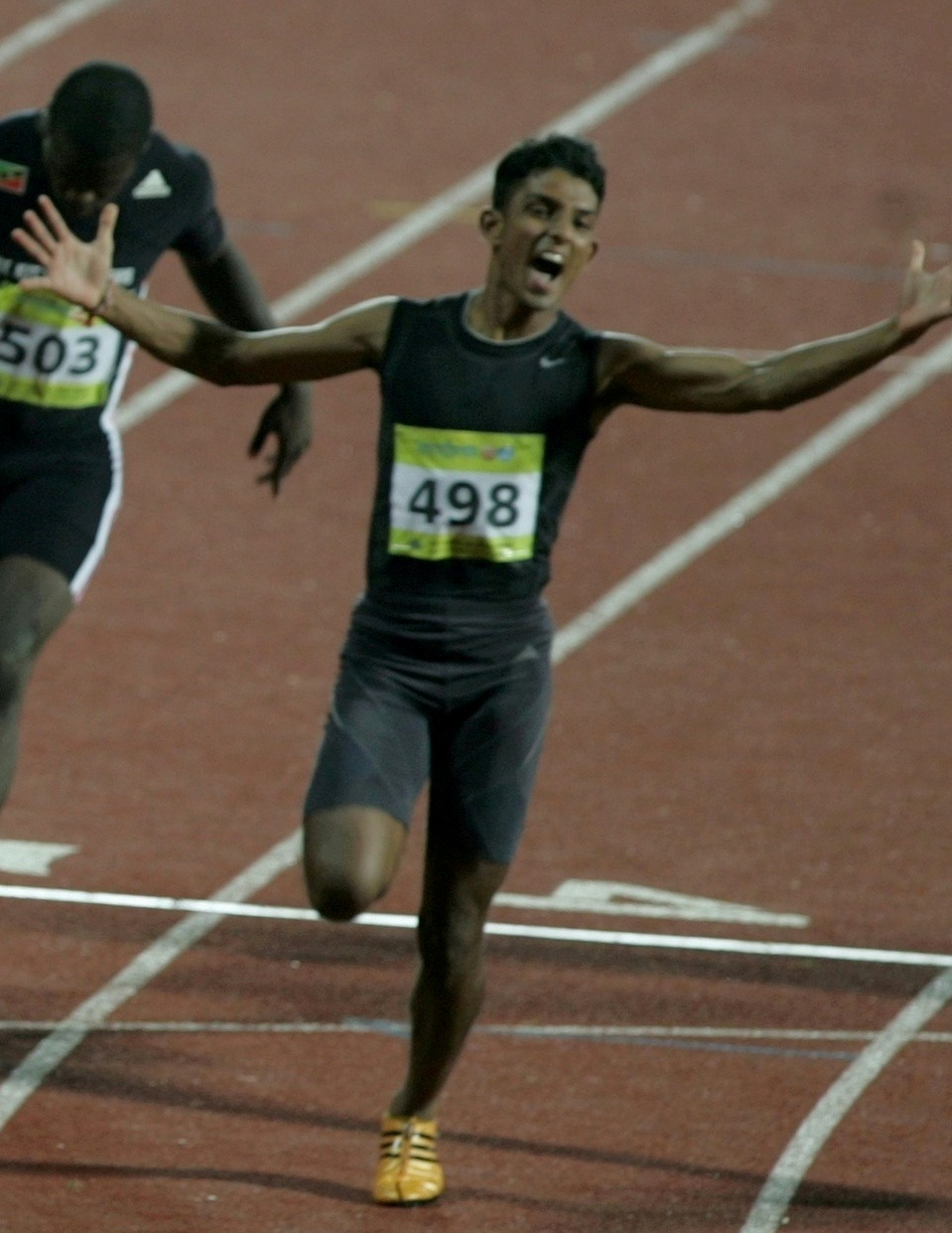 Shehan Ambeypitiya, Srilankan sprinter, winning the gold medal in 100m at Commonwealth Youth Games, pune , 2008